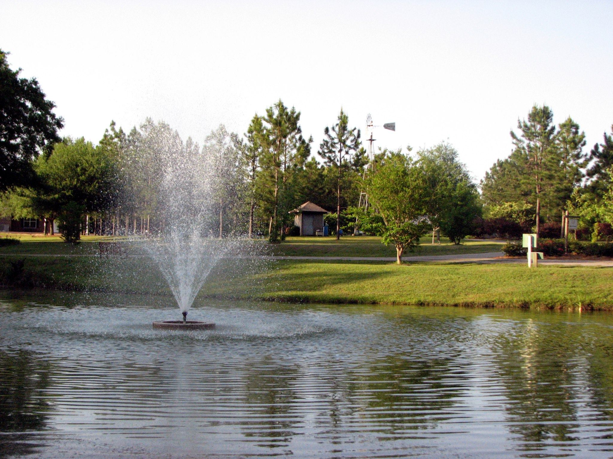 Pond at Dothan Area Botanical Gardens, Alabama